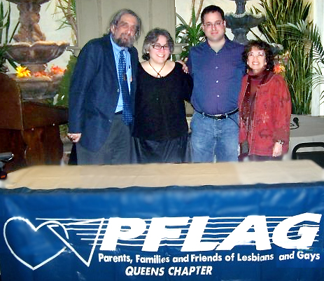 Four (4) winners of the Brenda Howard Memorial Award, left to right Larry Nelson 2005, Wendy Curry 2008, Tom Limoncelli 2006, Wendy Moscow 2007. The Award is given annually by the Queens NYC chapter of PFLAG to honor campaigners for LGBT/Bisexual rights.